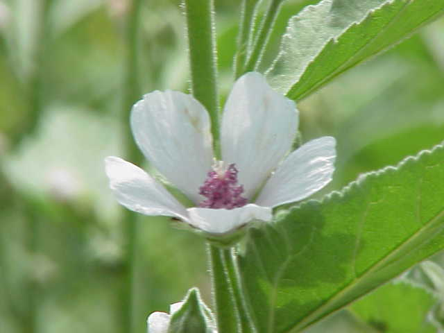 Species: Althaea officinalis Family: Malvaceae Image No. 1